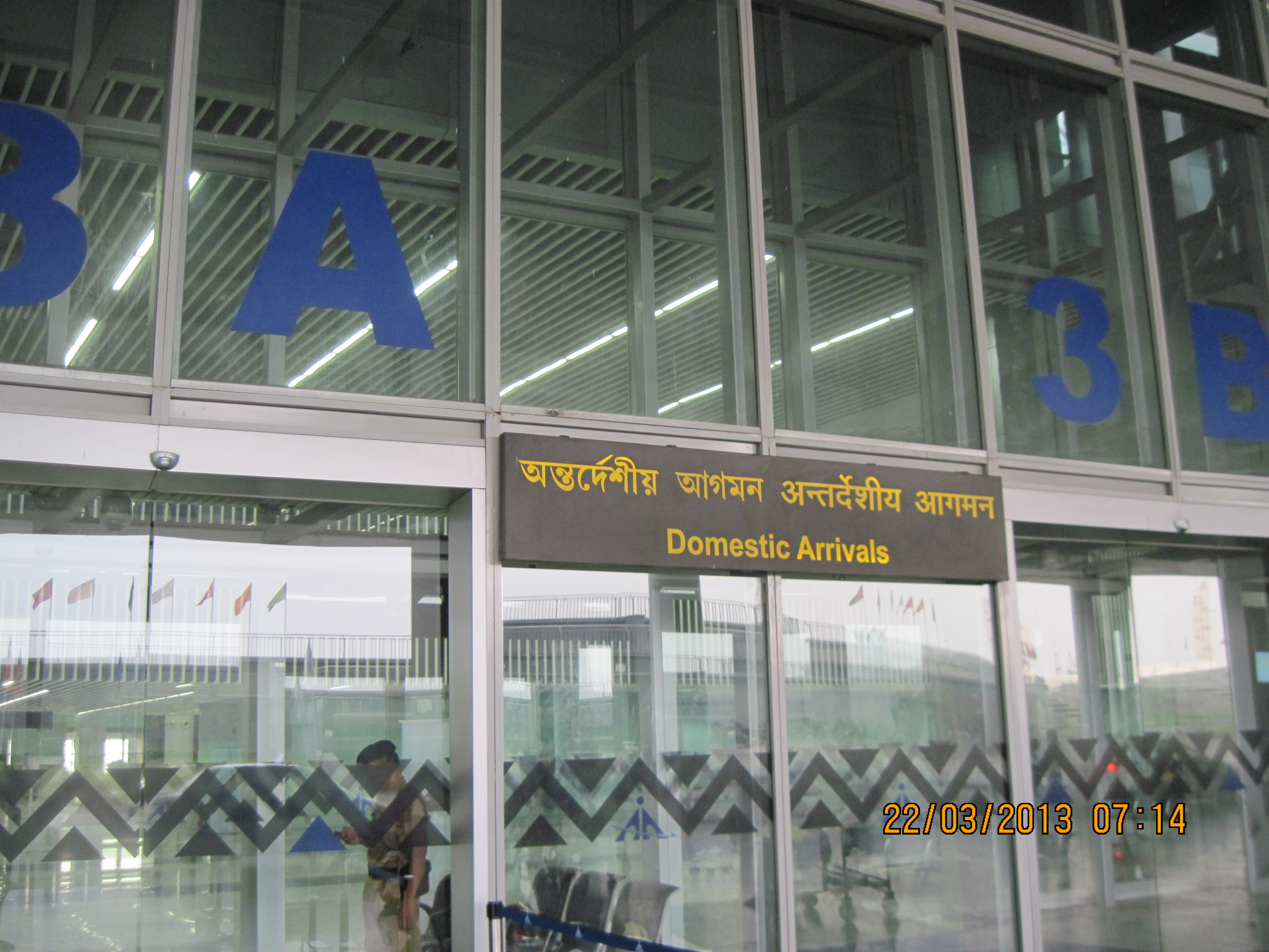 Kolkata Airport New Terminal Entrance